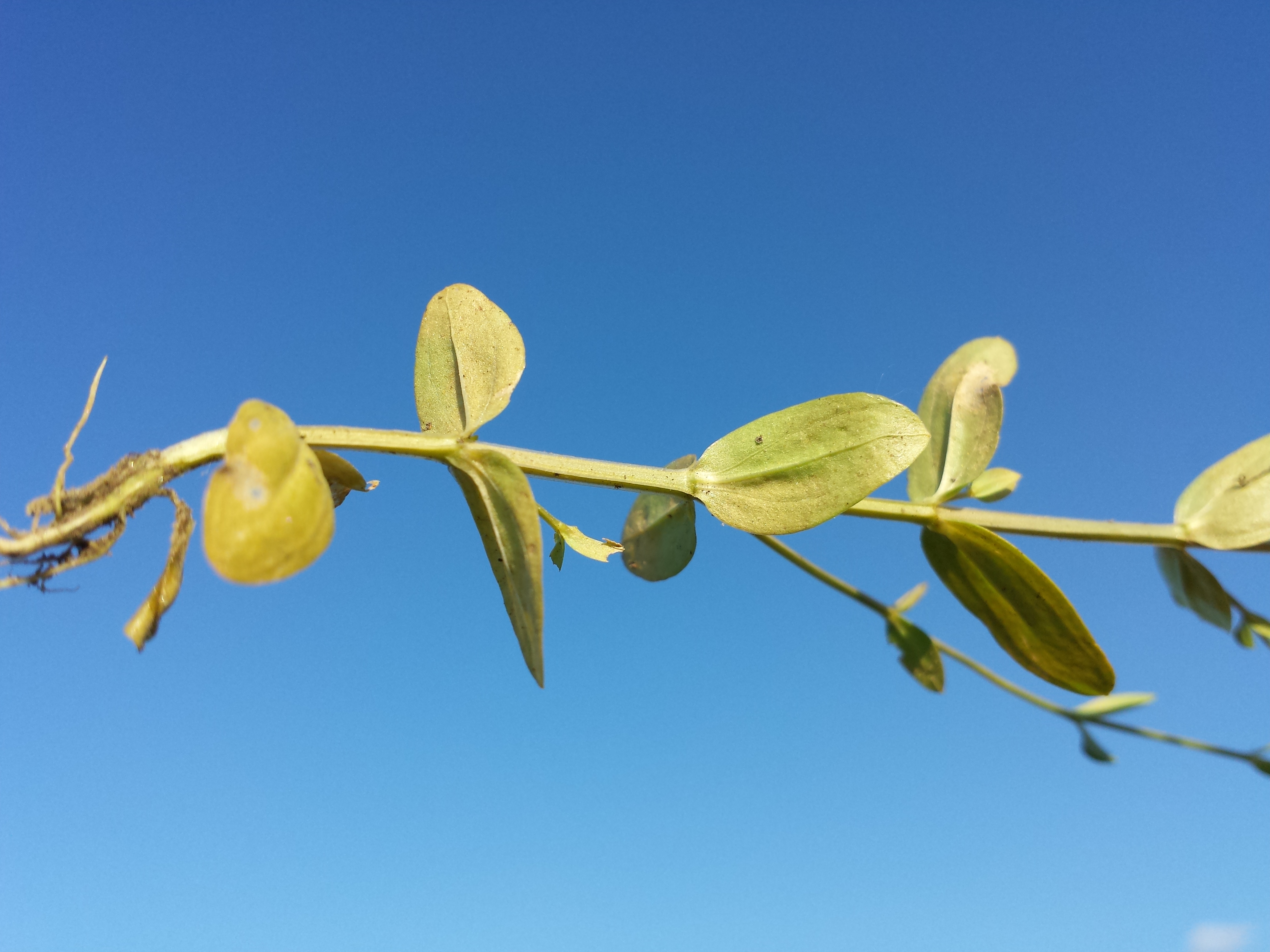 Stipe with leaves Taxonym: Centaurium pulchellum ss Fischer et al. EfÖLS 2008 ISBN 978-3-85474-187-9 Location: Neue Donau, Vienna-Floridsdorf - ca. 160 m a.s.l. Habitat: dry meadows